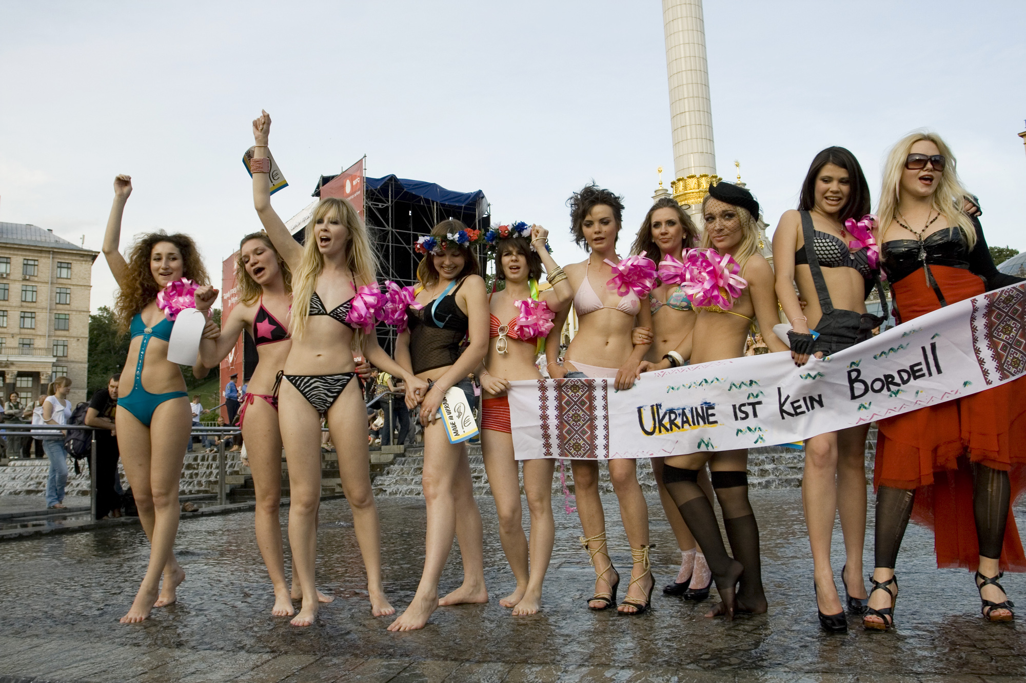 23 May 2009 over 100 FEMEN activists, supported by DJ HELL, German DJ and Music label owner, participated in protest "Ukraine is not a Brothel!" against sex tourism and prostitution at Independence Square, Kiev, Ukraine.